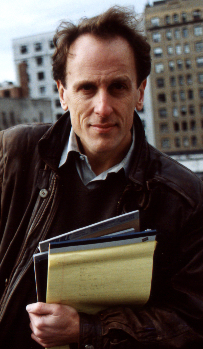 Picture of Thomas Lennon referenced in Wikipedia Article Thomas Lennon II and Thomas Furneaux Lennon- I am the author of these articles